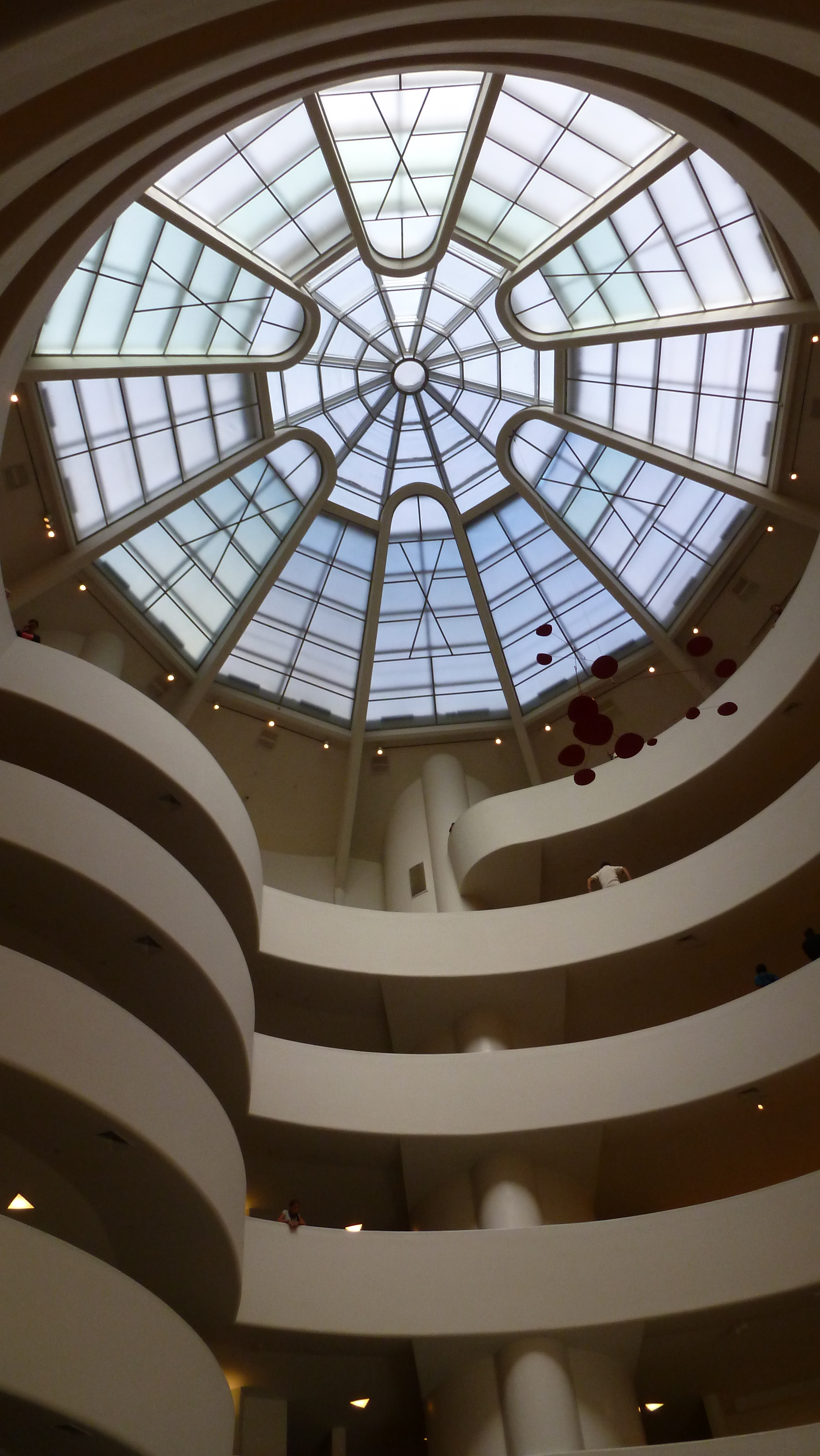 Solomon R. Guggenheim Museum